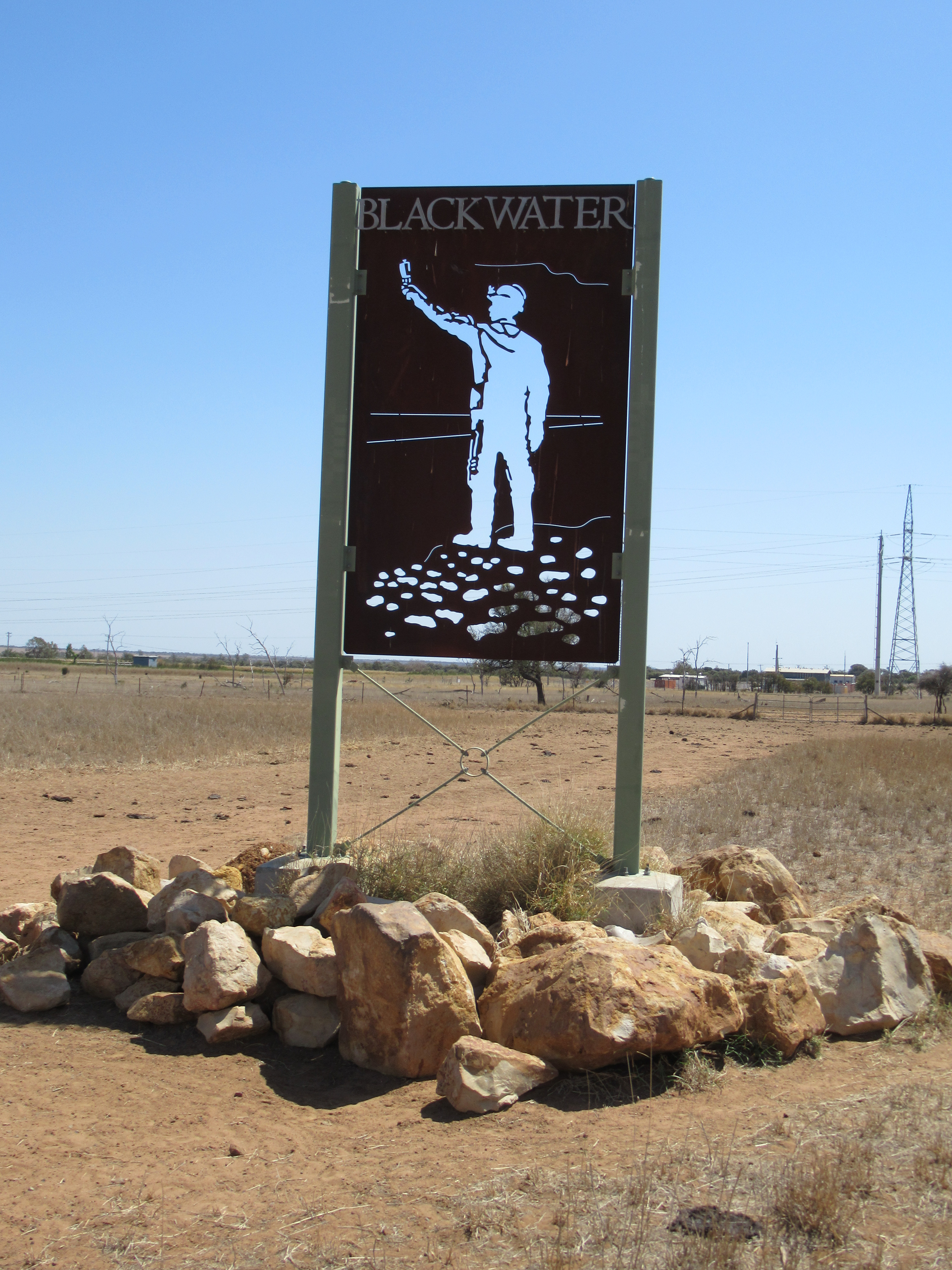 These signs were manufactured for the Central Highlands Regional Council by GMG (Global Manufacturing Group). Similar city entrance signs have been erected at Rolleston, Springsure and Emerald in Queensland.